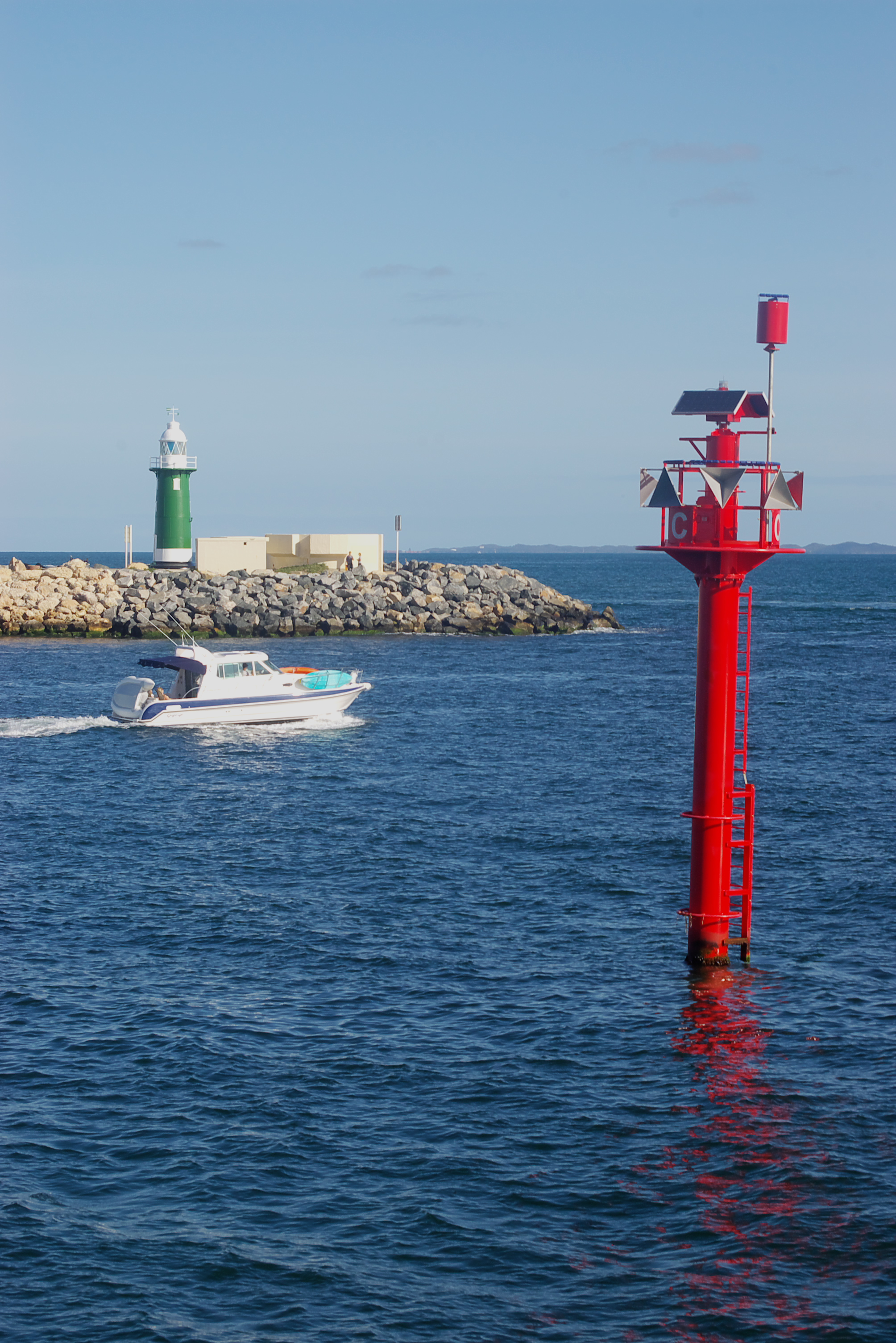 Navigation markers at the enterence to the Swan River and Fremanlte harbour Western Australia